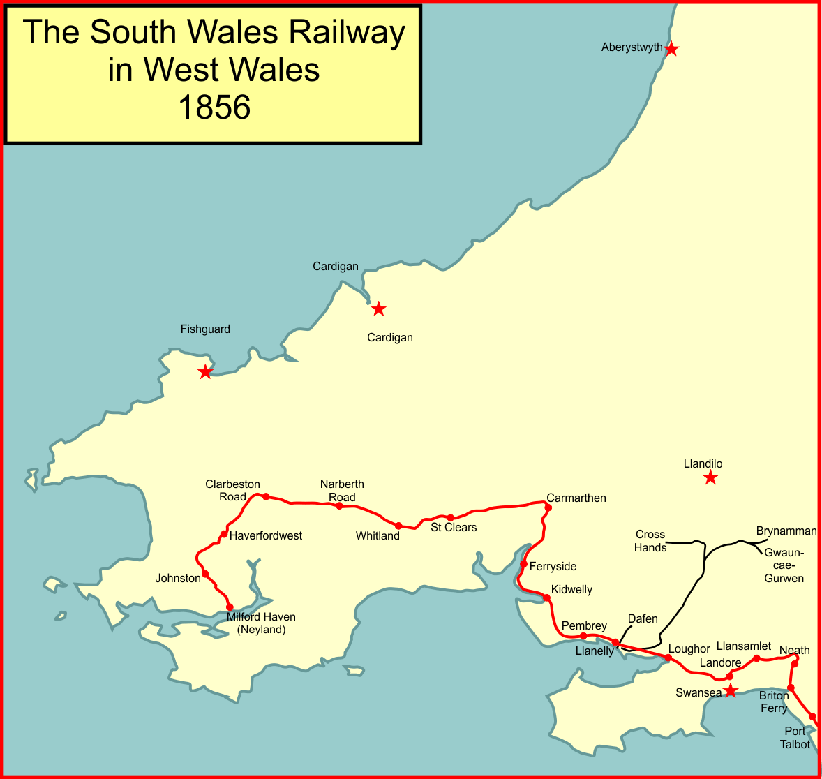 Railway lines in West Wales, UK, in 1856